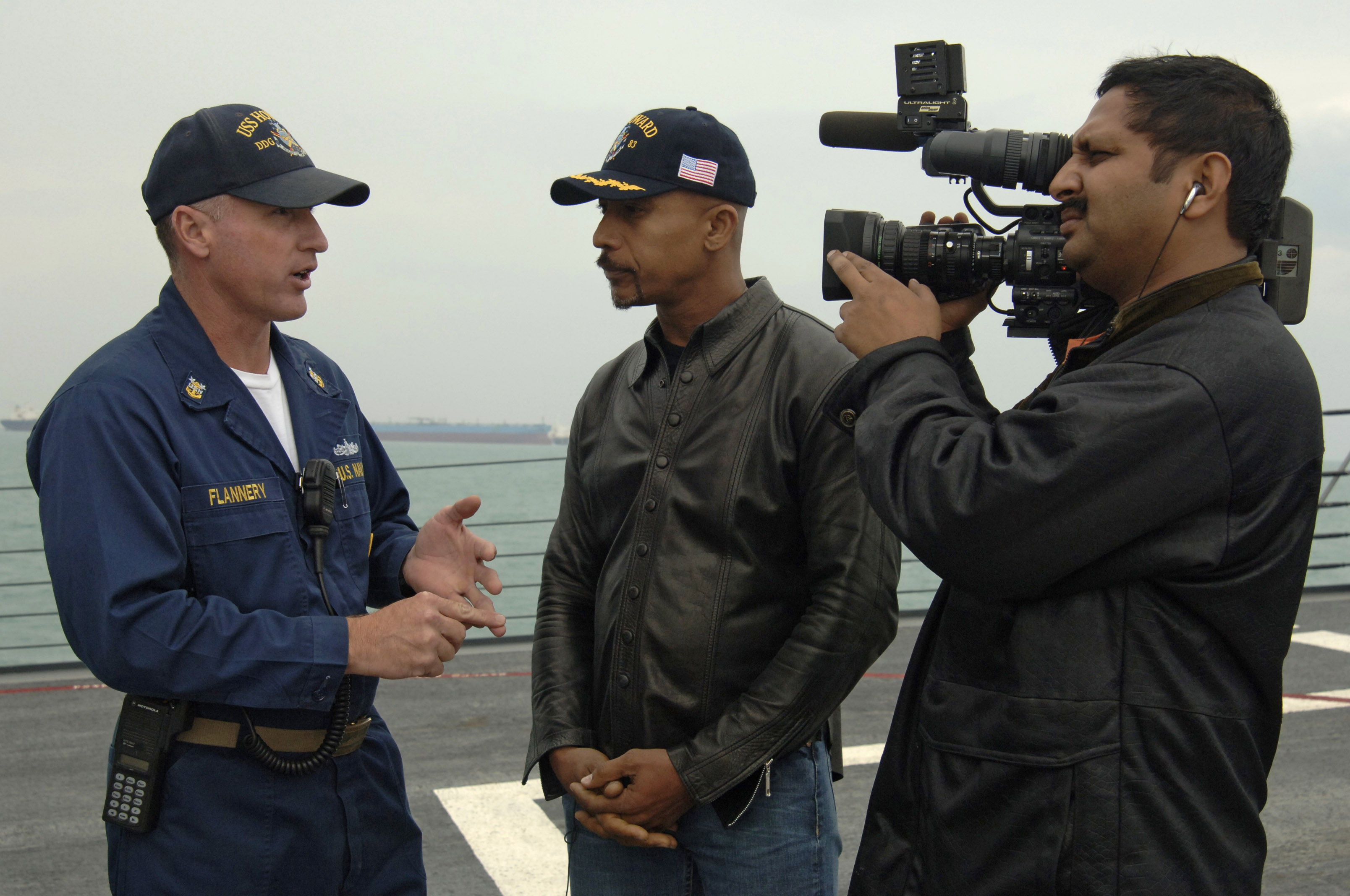 Persian Gulf (Dec. 5, 2006) - Montel Williams interviews Command Master Chief David Flannerry aboard guided-missile destroyer USS Howard (DDG 83). Williams, a talk show host and a former U.S. Navy lieutenant commander, traveled to the 5th Fleet area of operations to collect footage for a holiday special dedicated to U.S. service members. U.S. Navy photo by Mass Communication Specialist 2nd Class Kitt Amaritnant (RELEASED)